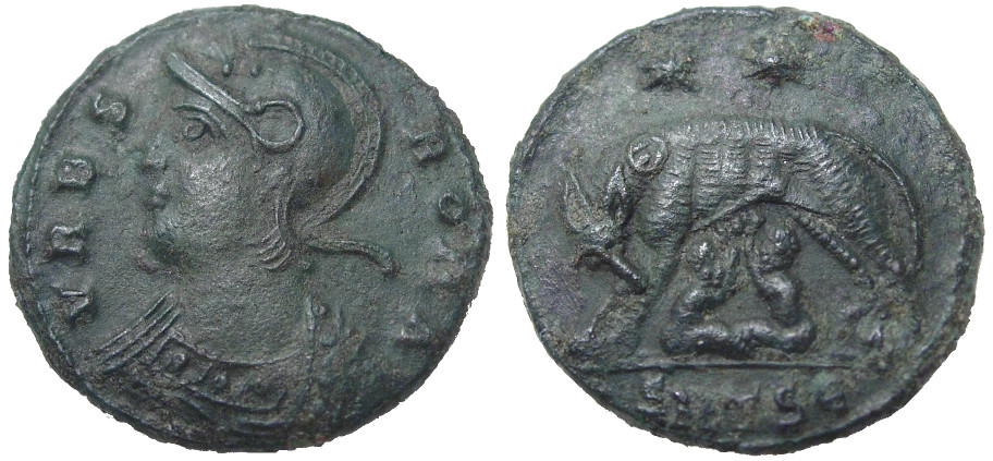 This coin dates back to the 4th century AD under the rule of Constantine I the Great. It dually commemorates the glory of Rome and founding of Constantinople. It features on the reverse the she-wolf and Romulus and Remus.